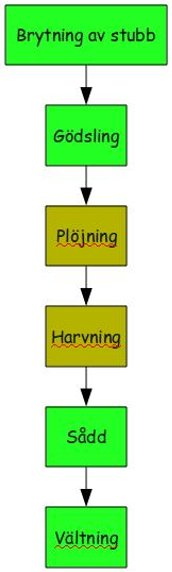 Procedure when switching crops on a field